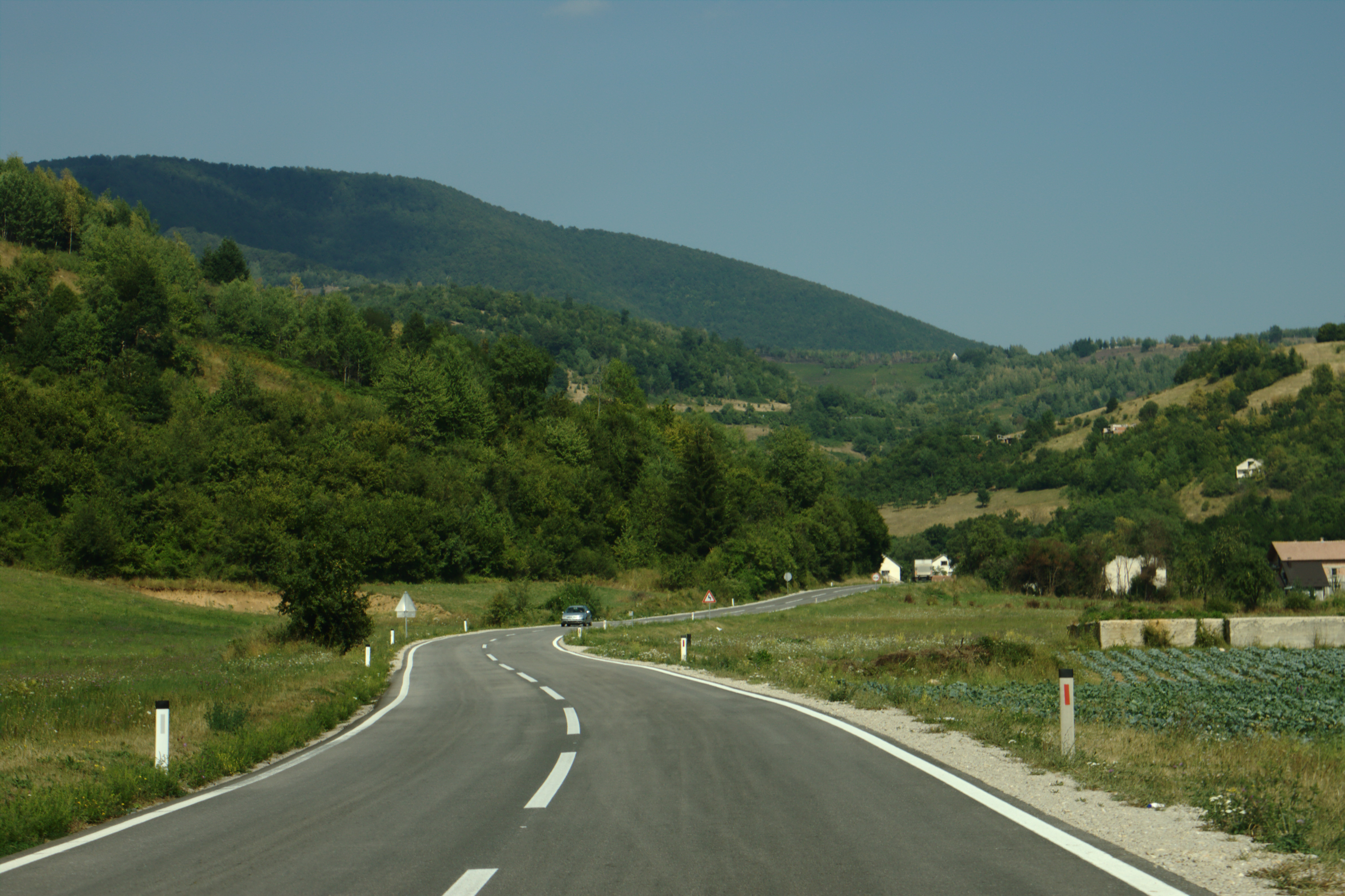 Donji Vakuf-Travnik road (near Travnik), Bosnia and Herzegovina